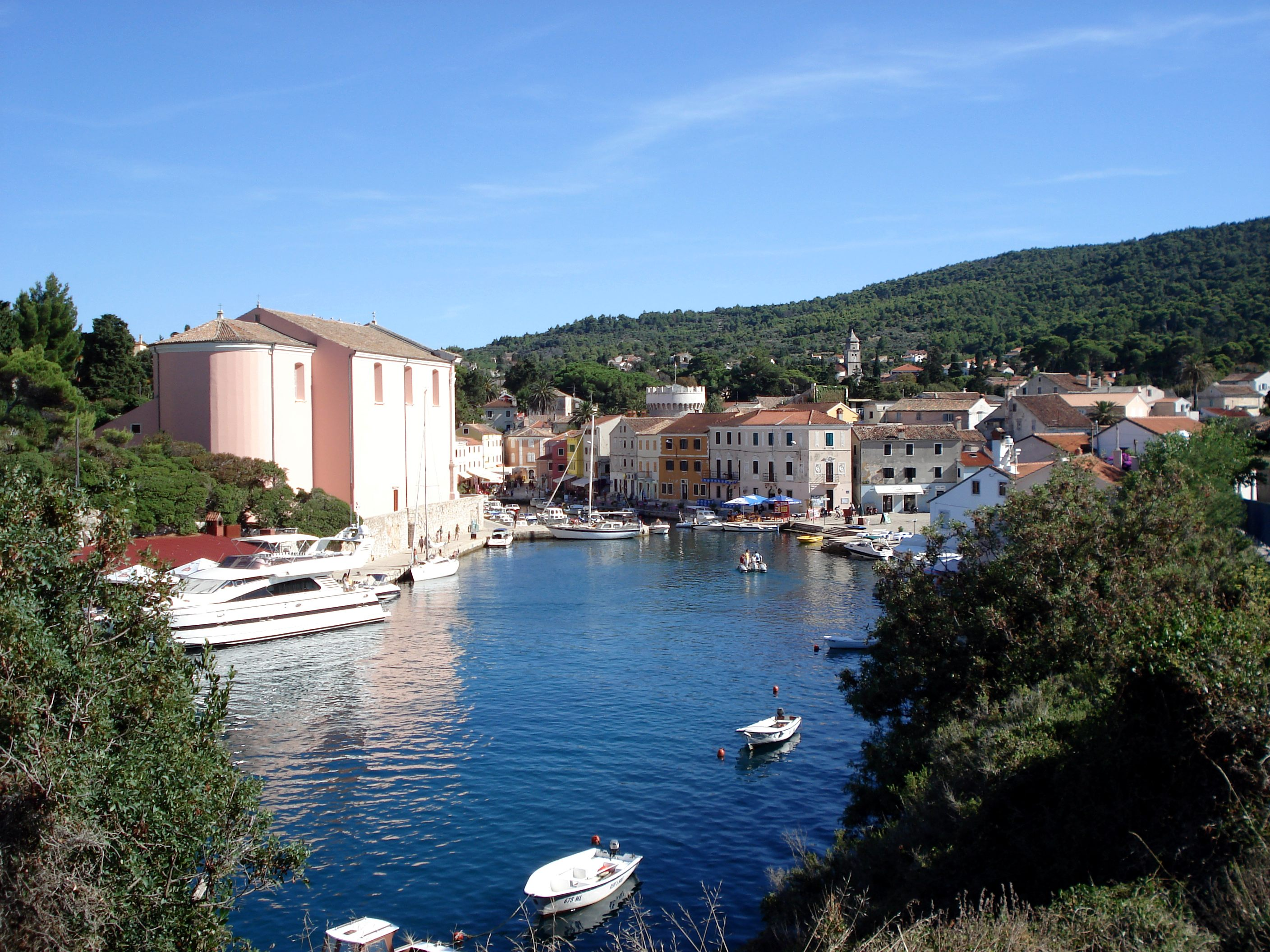 The Town of Veli Losinj